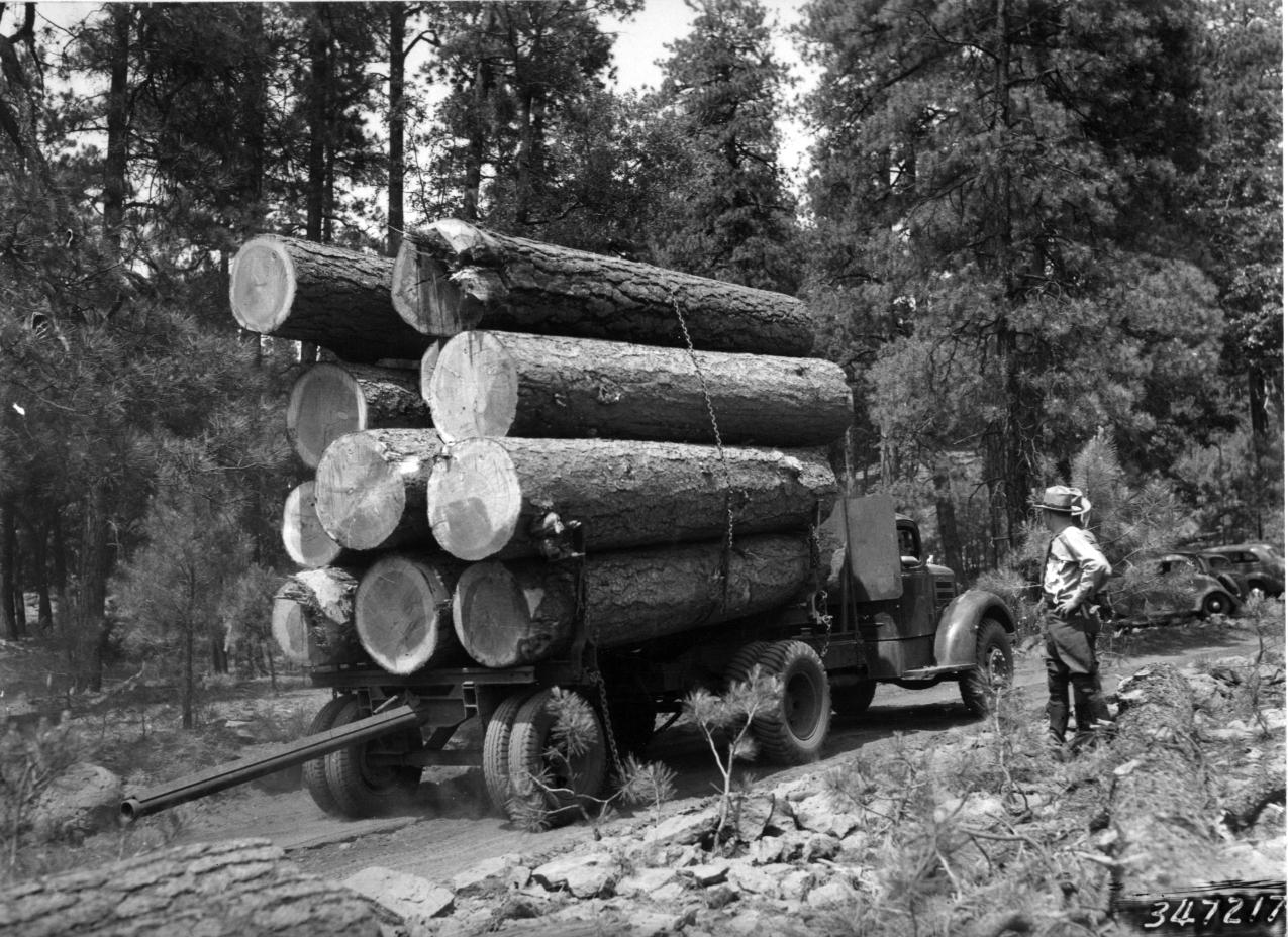 A truck load of logs on an Arizona Lumber & Timber Company sale. Photo taken in 1937 by R. King. Credit: USDA Forest Service, Coconino National Forest